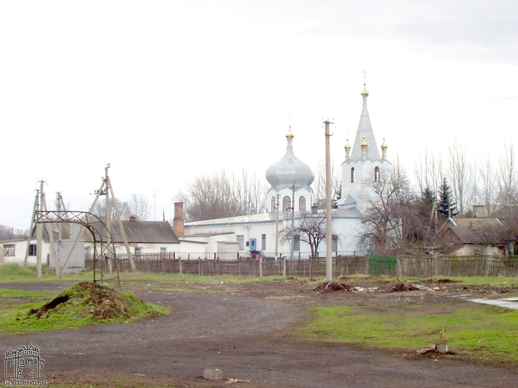 Межова́ — селище міського типу Дніпропетровської області, центр Межівського району та Межівської селищної ради. Населення становить 8 049 осіб.